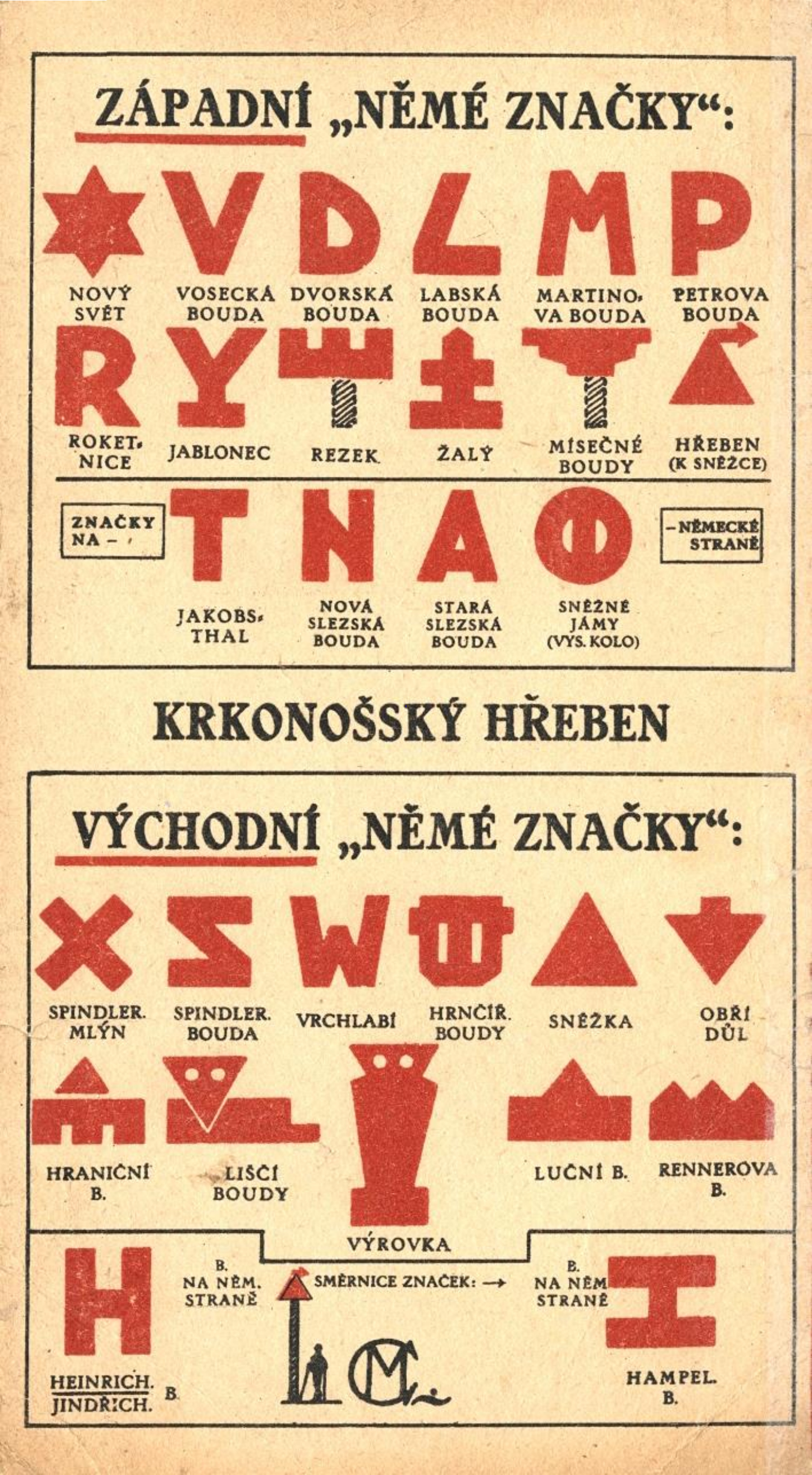 Original set of Muttich's "Mute Signs" from 1923 (center below is the monogram of the painter)